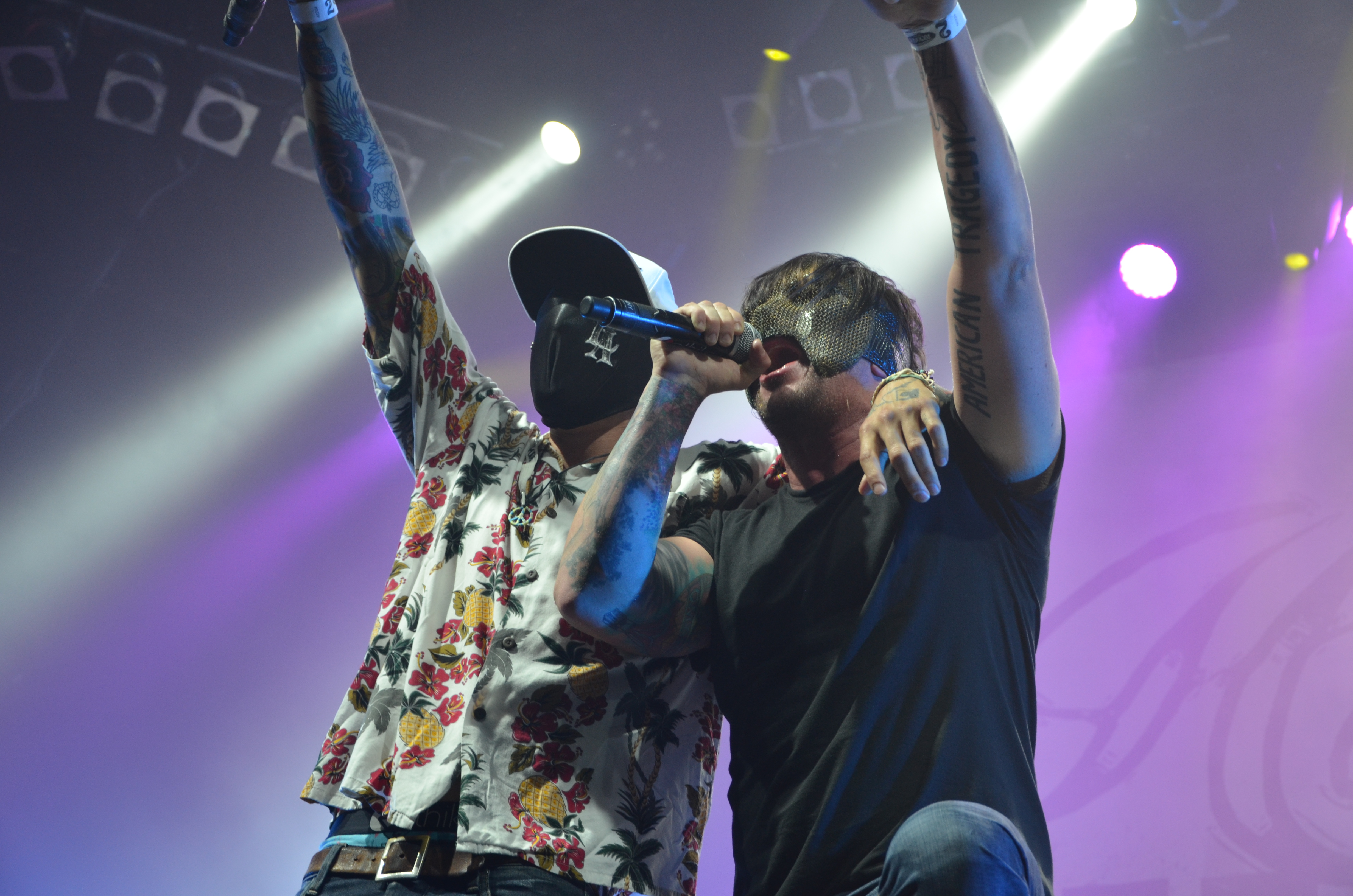 Hollywood Undead bei Rock am Ring 2015.